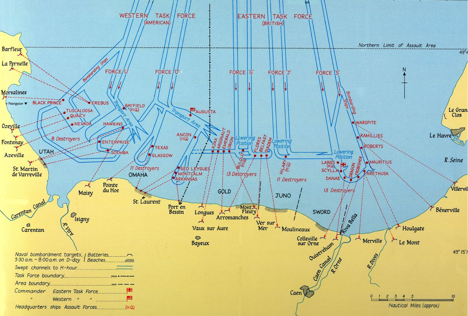 Naval Bombardments on D-Day